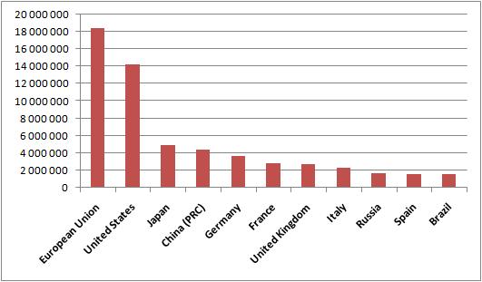 The ten largest economies in the World and the European Union, measured in nominal GDP (millions of USD), according the International Monetary Fund, 2008.[1]